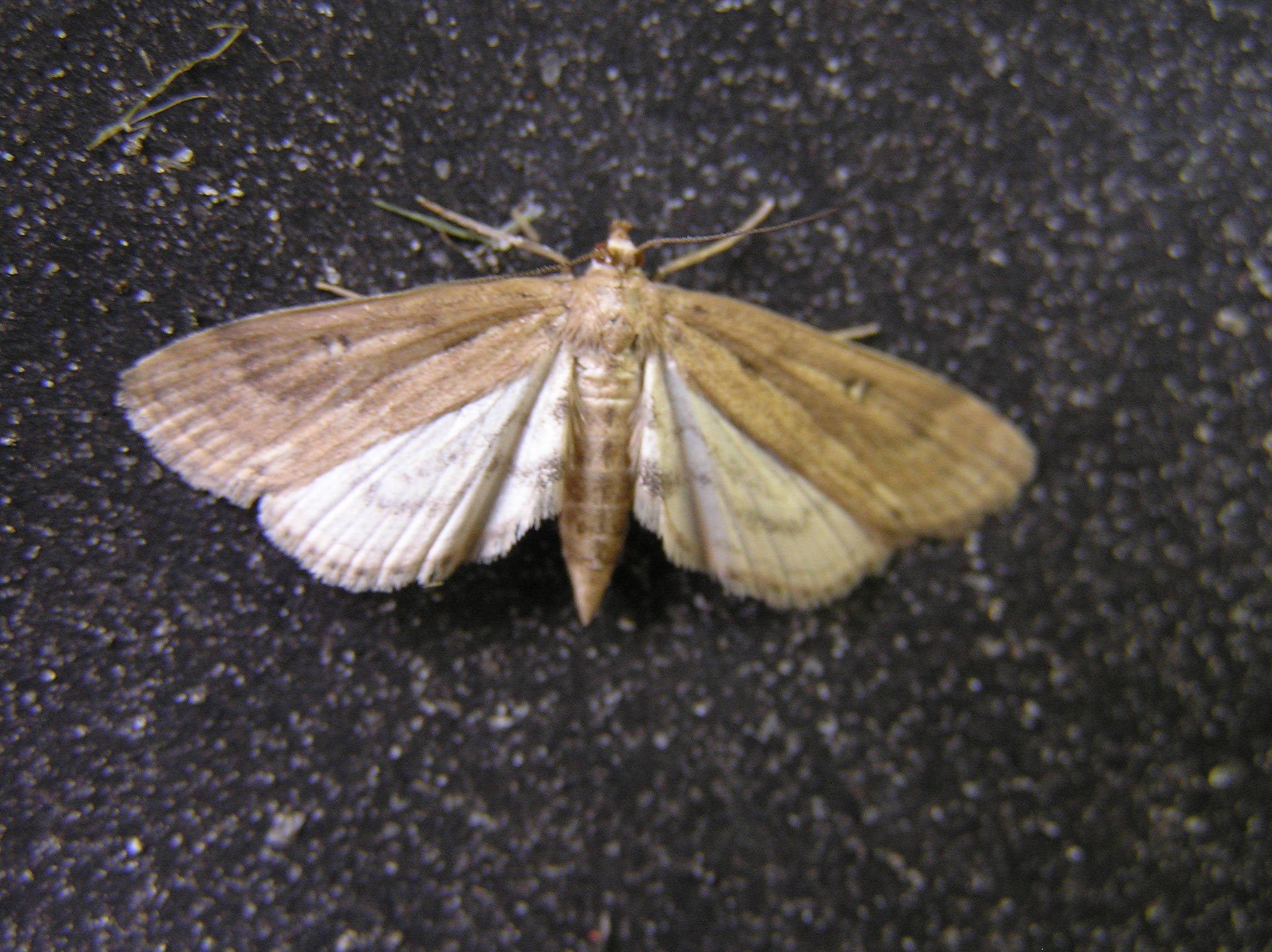 Parapoynx stratiotata female (Katlijk, the Netherlands)